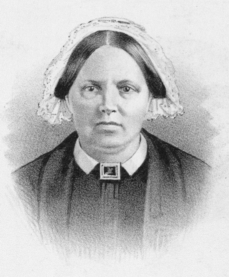 Rhoda (Phelps) Niles, one of the first settlers of present-day Troy, Michigan.